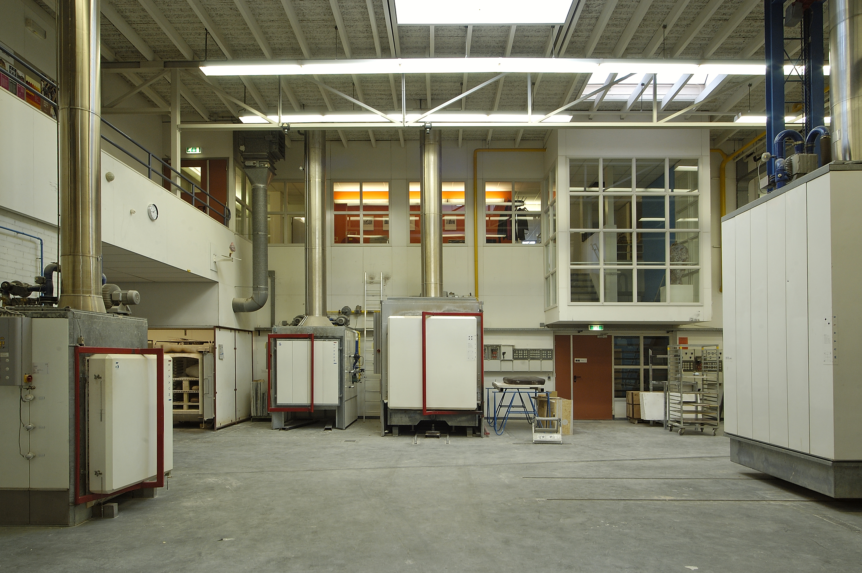 Kilnhall